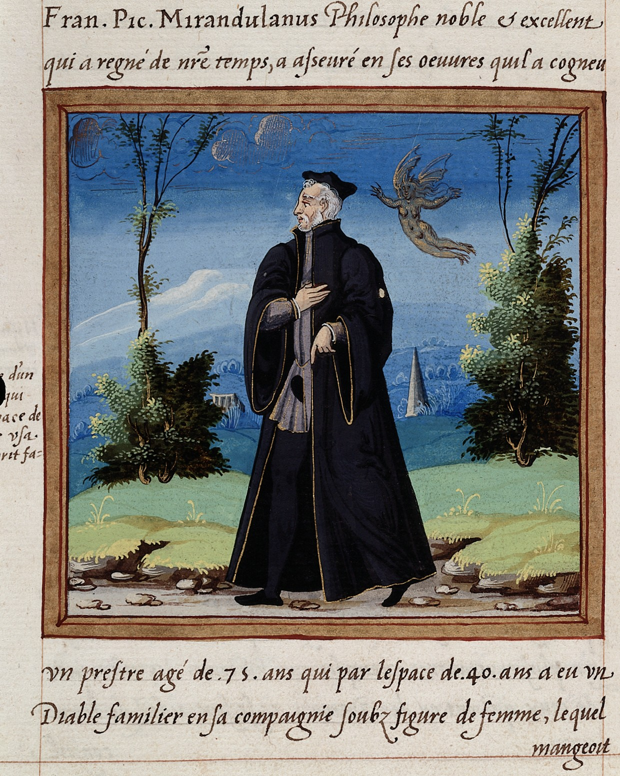 Histoire d'un prestre qui l'espace de 40 ans usa d'un esprit familier. Story of a priest who for the space of 40 years employed a familiar spirit. Archives & Manuscripts